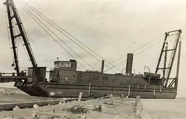 The Port Nelson dredge, lifted onto the artificial island by a storm in November 1924.